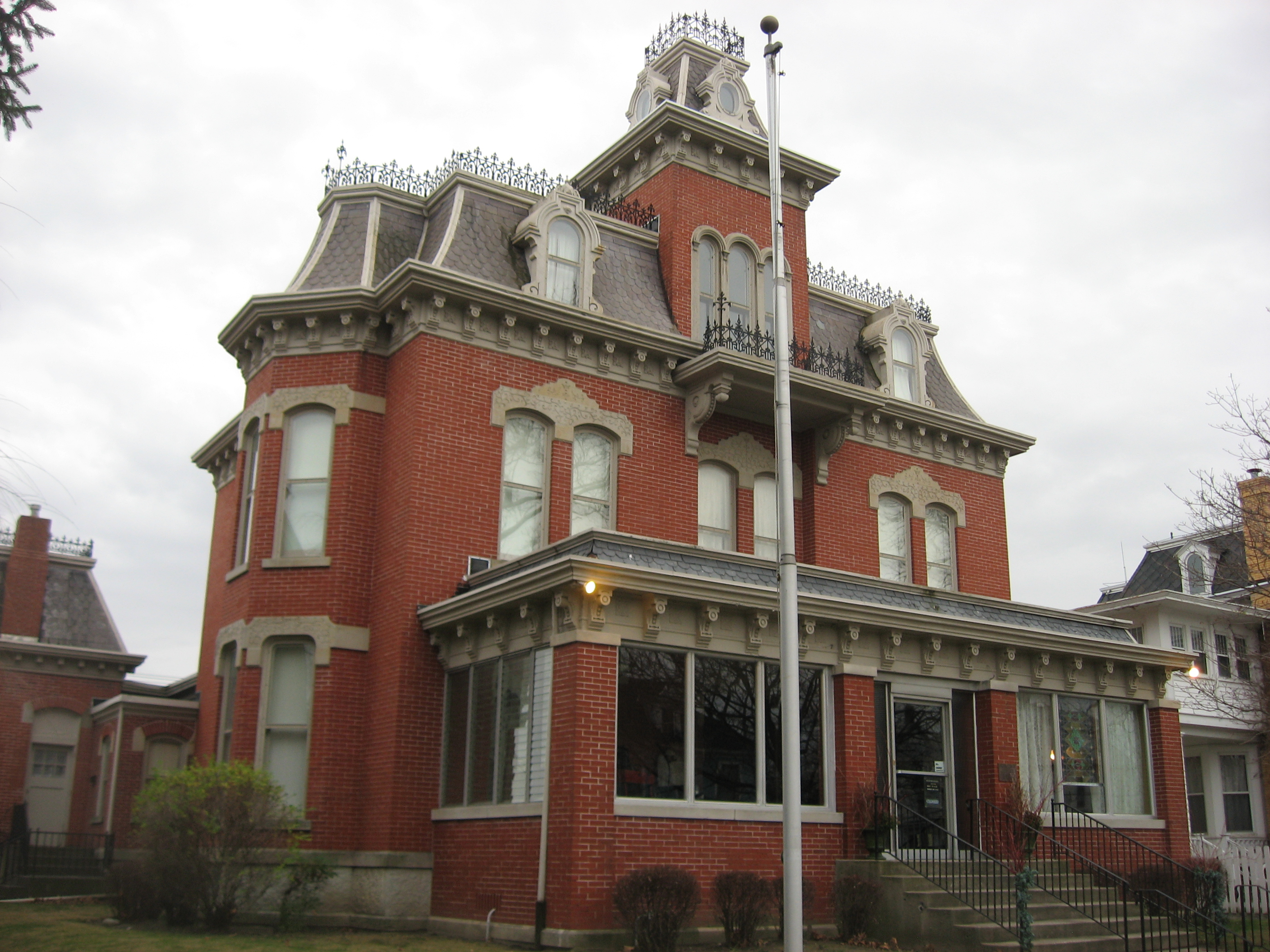 Front of the Stewart-Studebaker House, located at 420 W. Market Street in Bluffton, Indiana, United States. Built in 1882 and since converted into the local historical society museum, it is listed on the National Register of Historic Places.